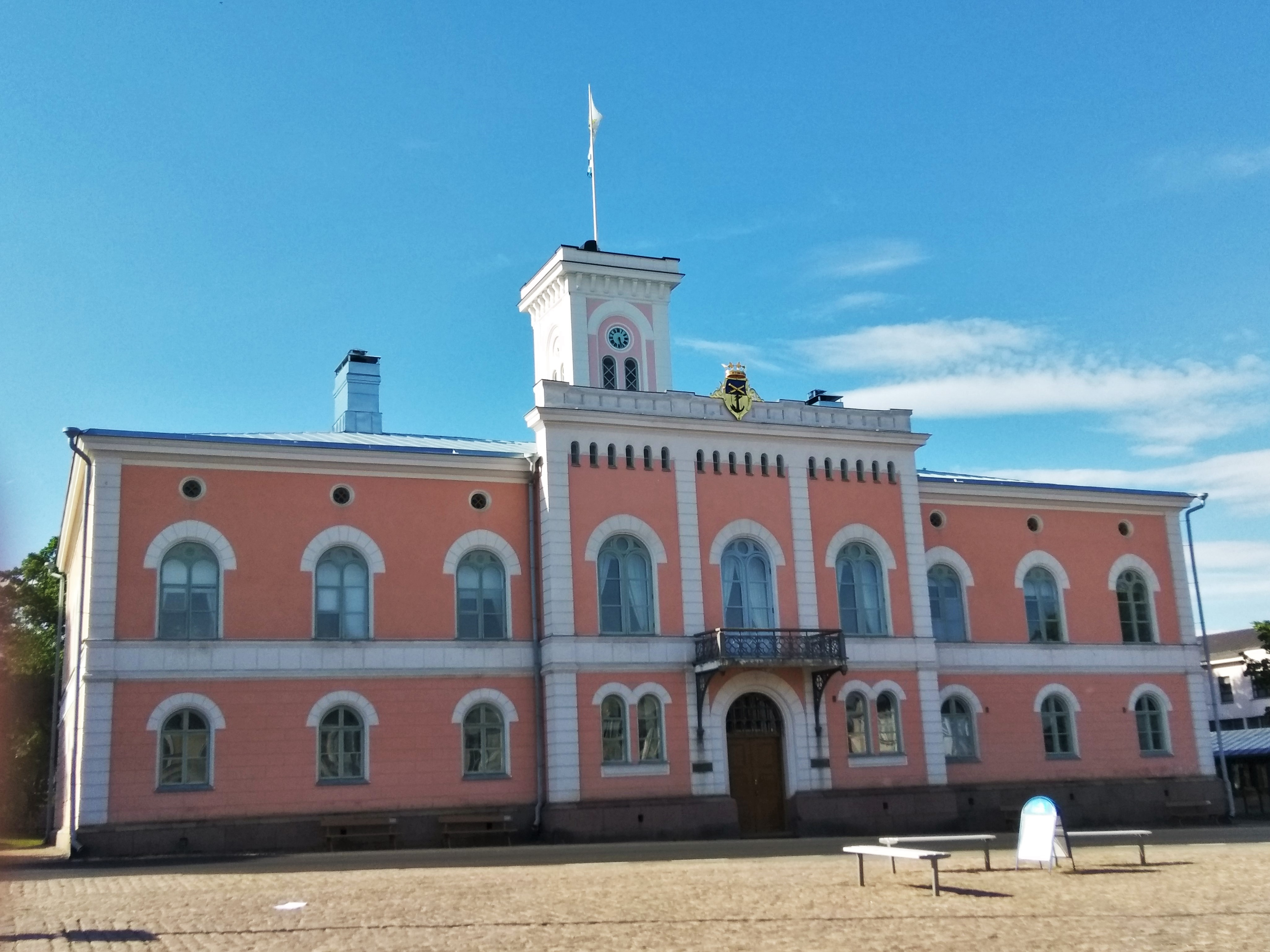 Townhall of Loviisa town, Finland.